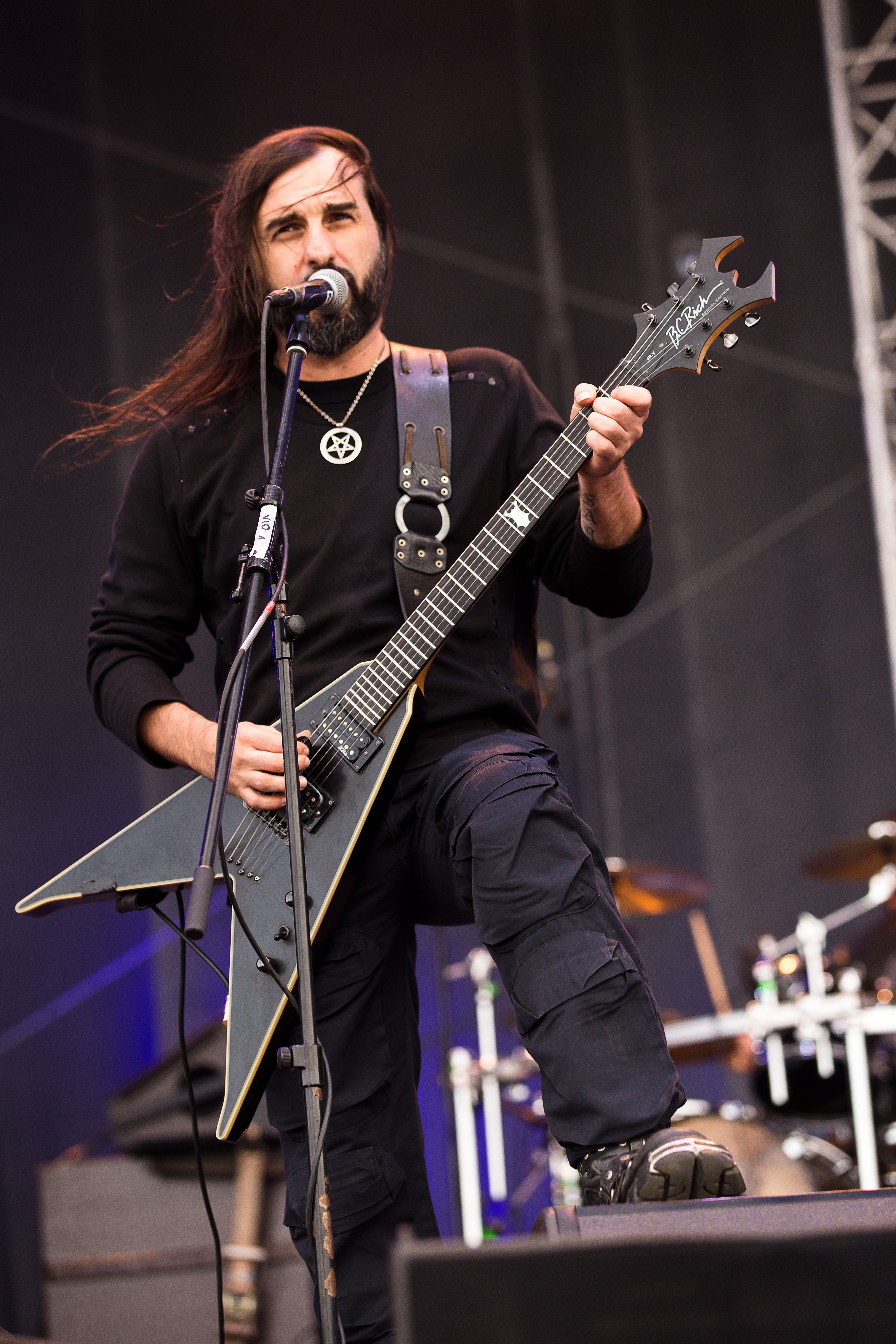 The Greek metal band Rotting Christ at the Party.San Open Air 2015 in Obermehler-Schlotheim/Germany.